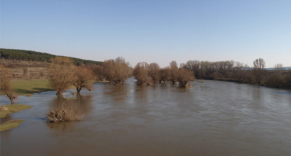 Marica River at Harmanli Bulgaria